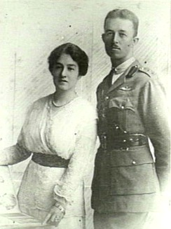 AWM Caption: LIEUTENANT RICHARD WILLIAMS AND MRS. WILLIAMS, C.1915.